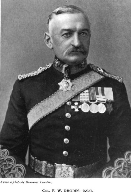 Cecil Rhodes: A Study of a Career", by Howard Hensman, William Backwood and Sons, Edinburgh and London (1911)